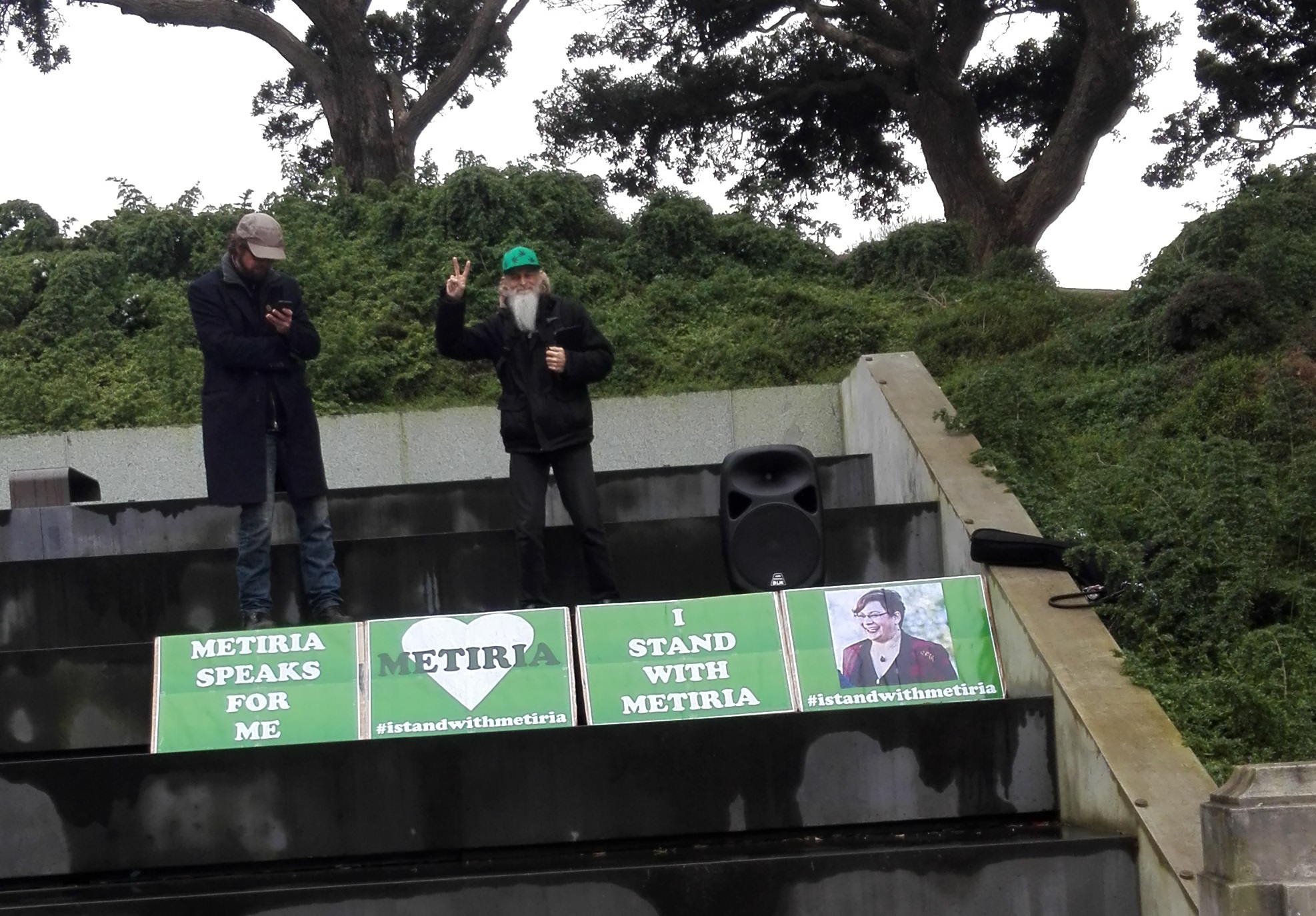 Political activists with banners saying "I stand with Metiria" outsige Parliament grounds, Wellington